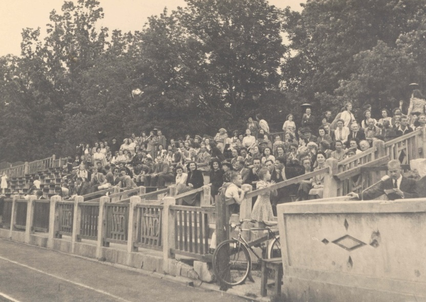 Football ground of the Wiener Athletiksport Club, ca. 1913 or later.